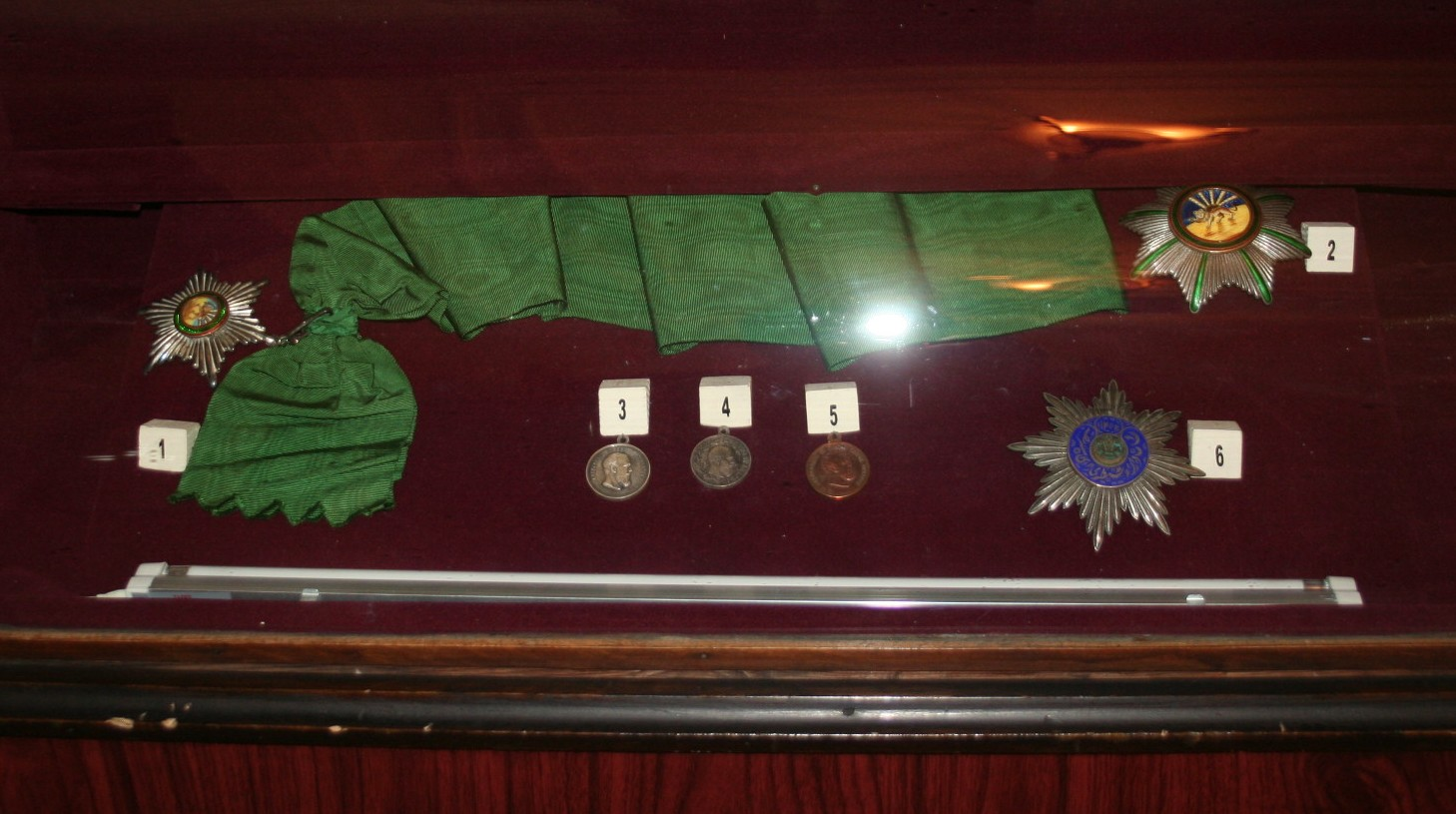 Awards of Haji Zeynalabdin Taghiyev. Museum of History of Azerbaijan.